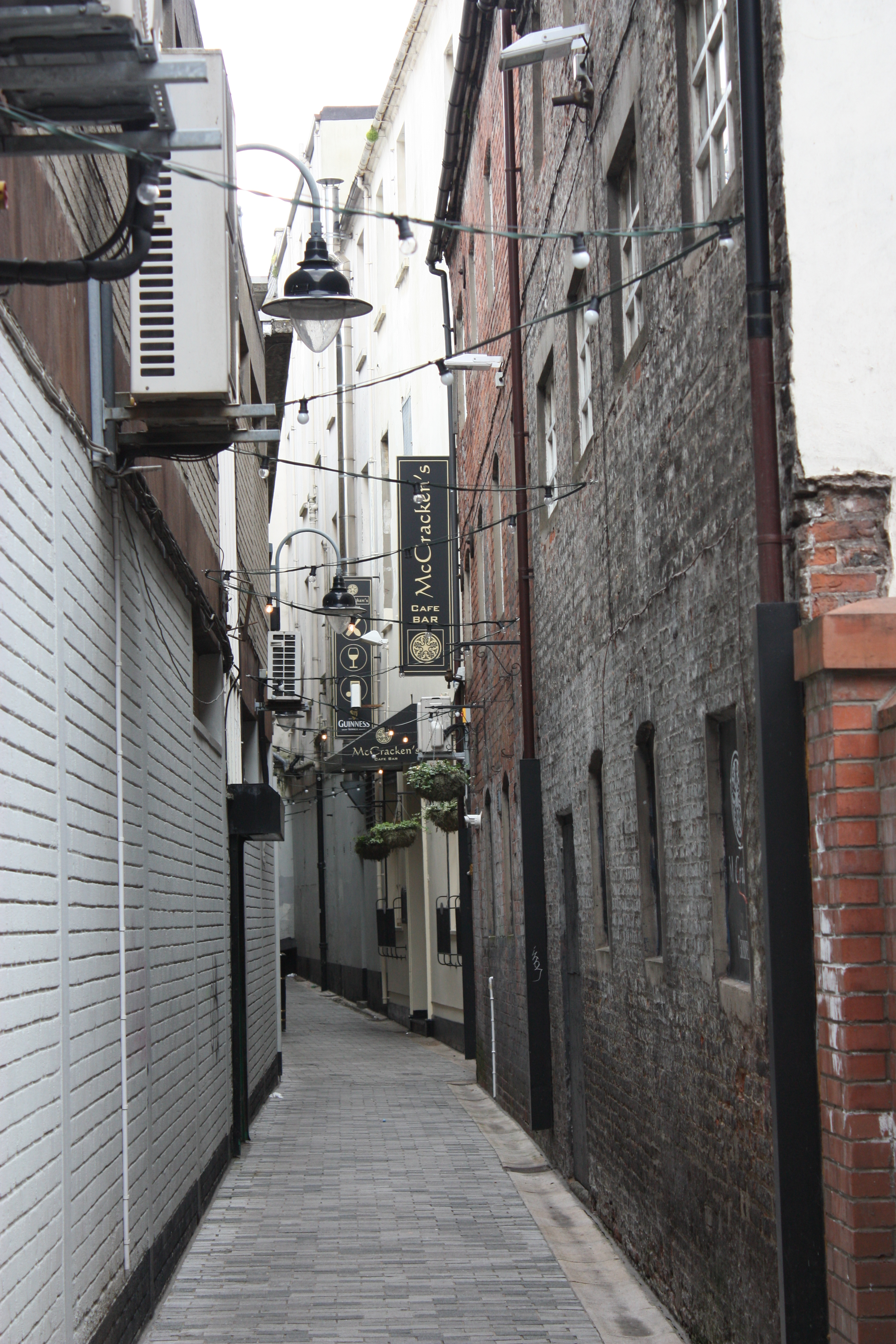 McCracken's Cafe bar, Joy's Entry (off Ann Street), Belfast, Northern Ireland, June 2010